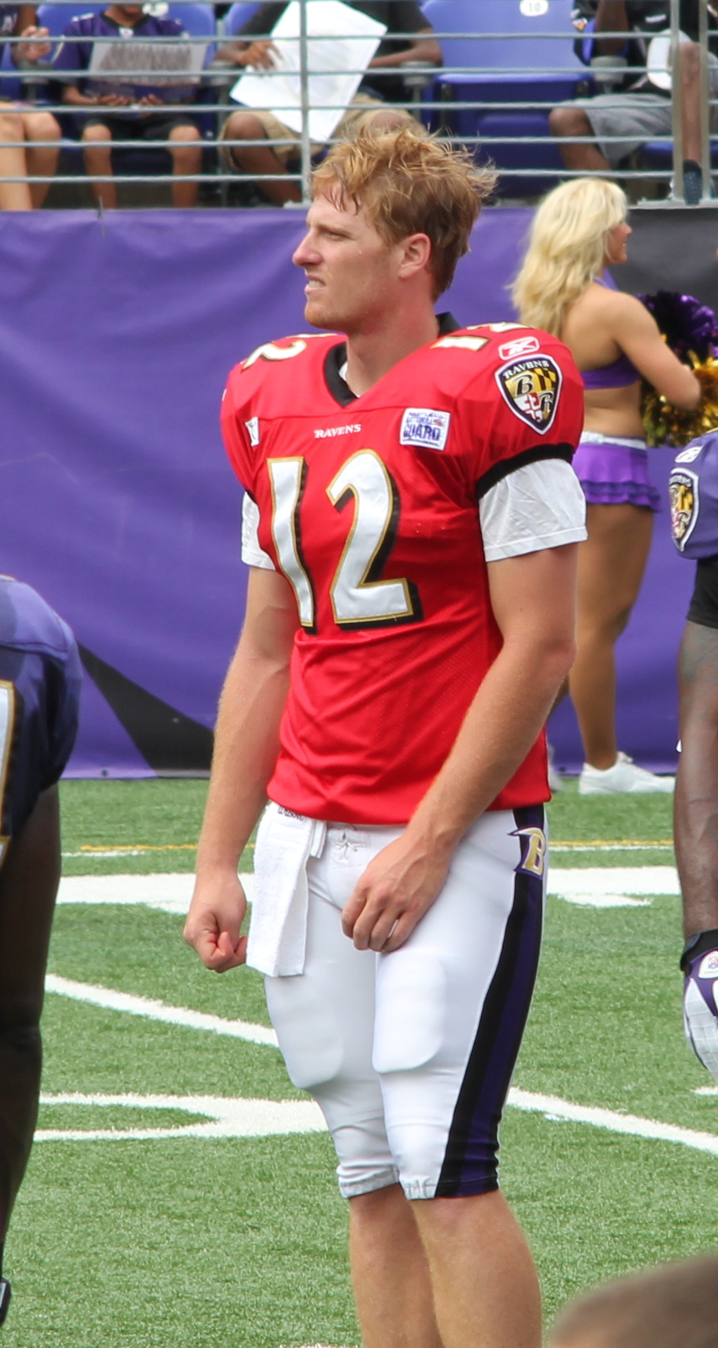 Hunter Cantwell at M&T Bank Stadium practice August 2011